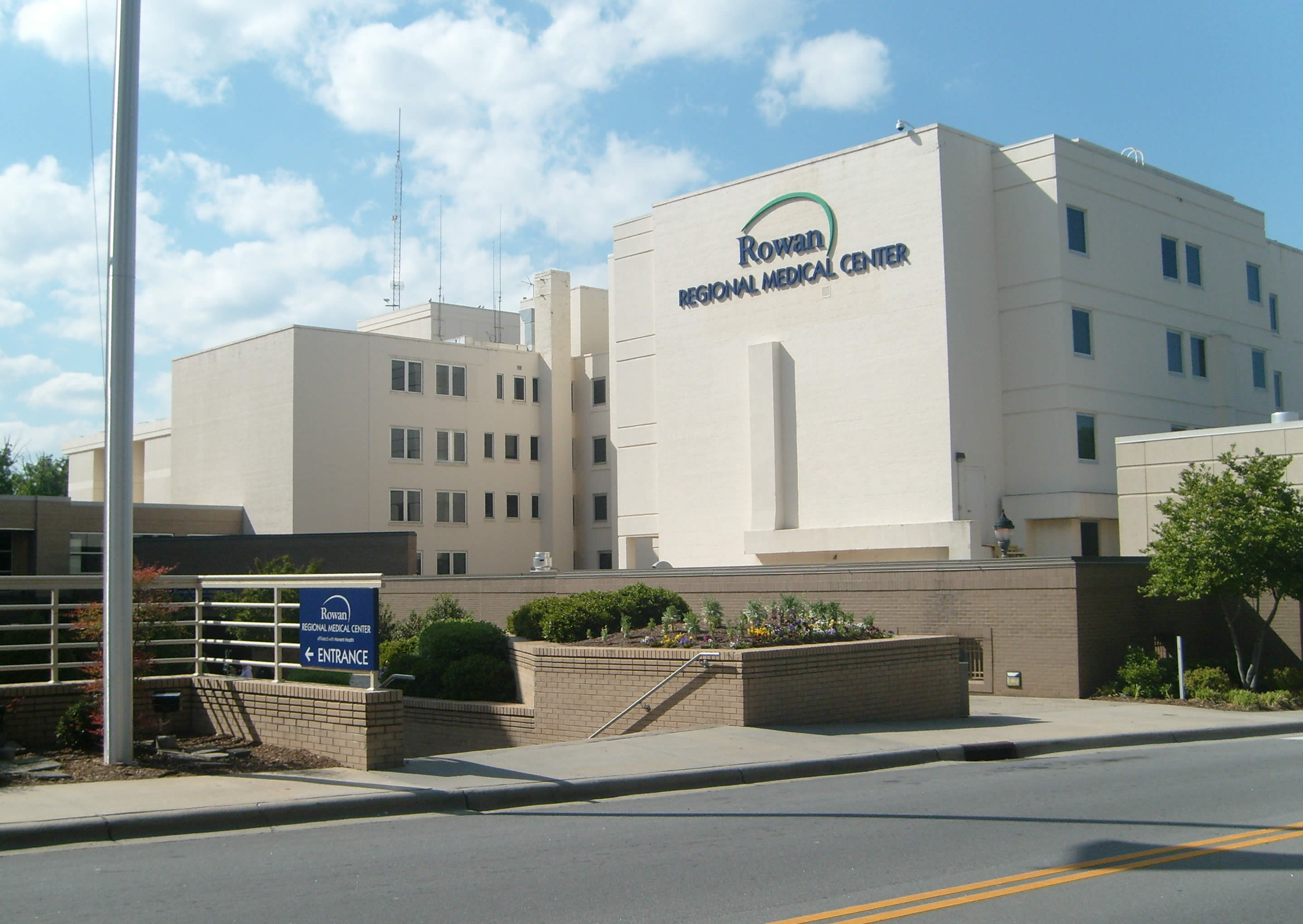 Main visitor entrance to Rowan Regional Medical Center in Salisbury, North Carolina, USA.